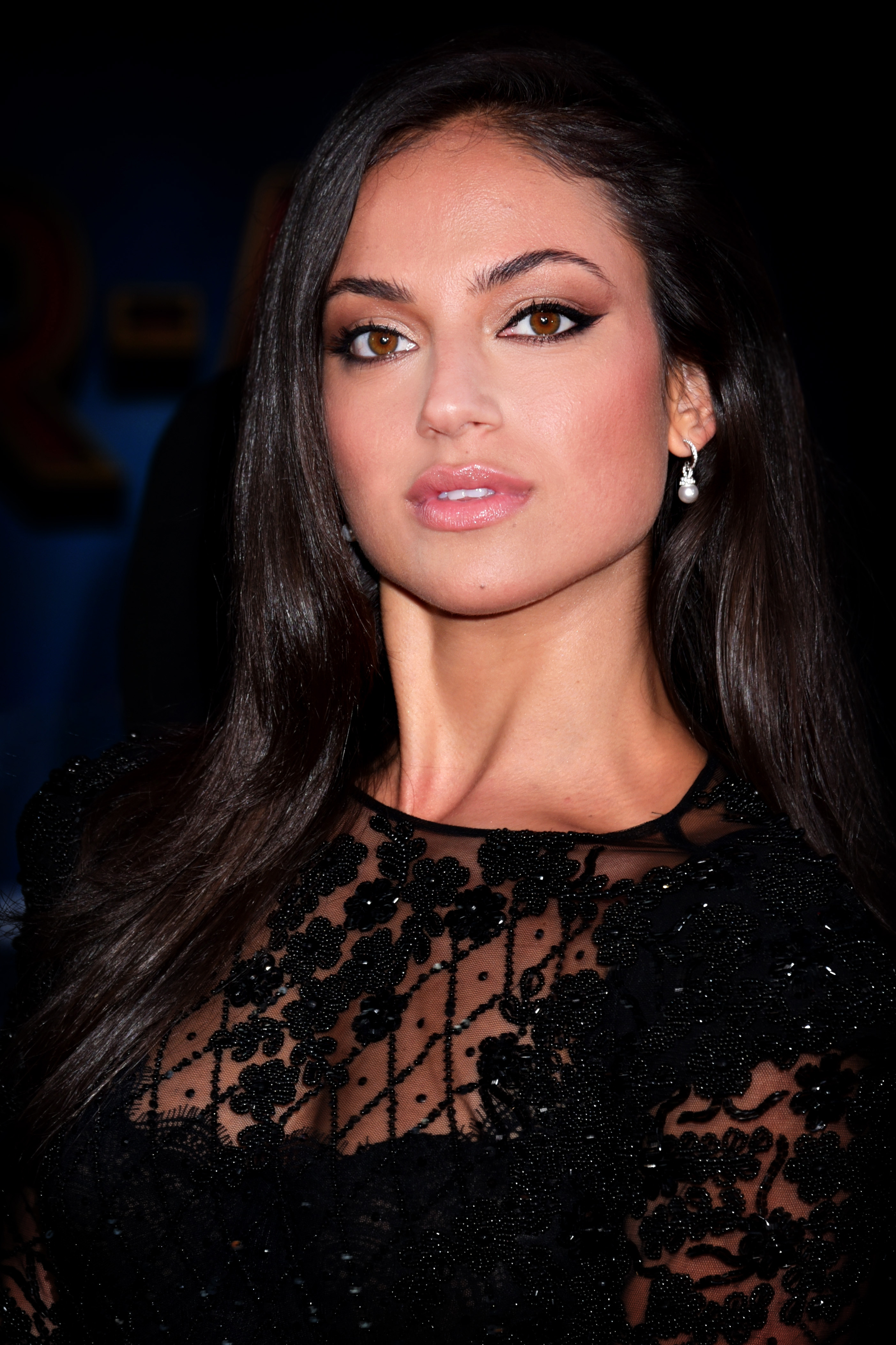 Inanna Sarkis at the "Spider-Man: Far From Home" premiere in Hollywood California on June 26, 2019 - Photo by Glenn Francis of